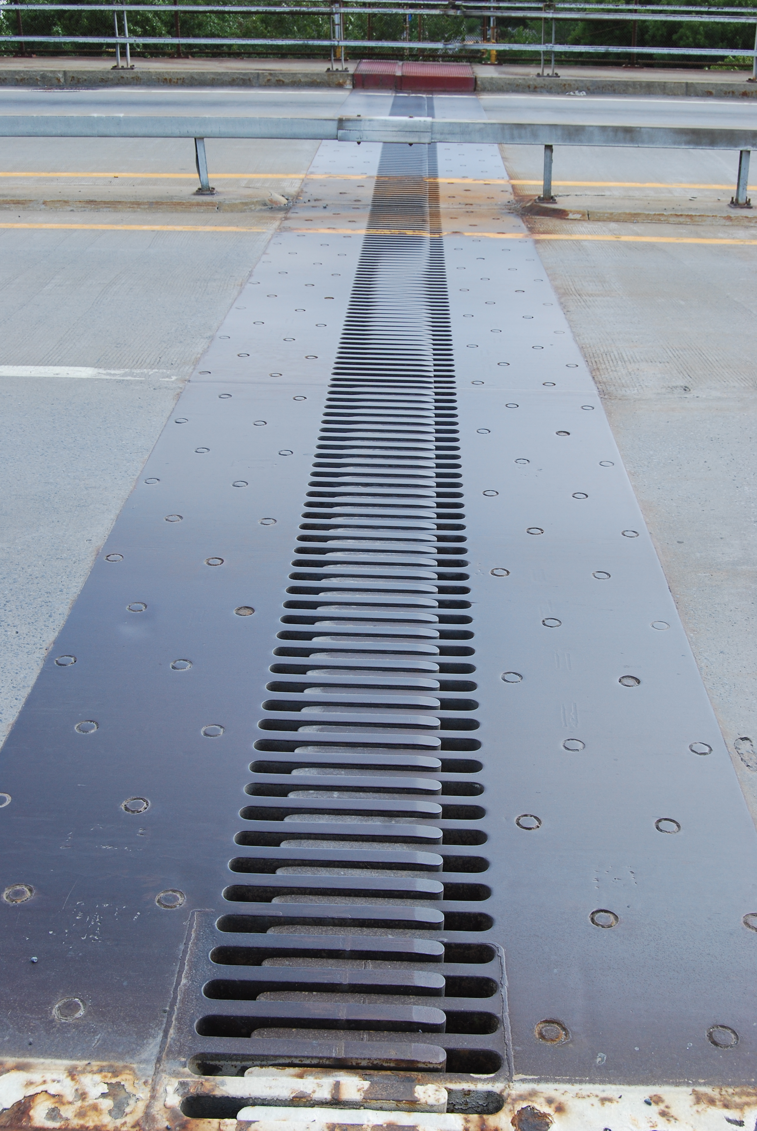 Expansion joint in a steel plate girder bridge. This joint is located on the Congress Street Bridge in Troy, New York, United States.